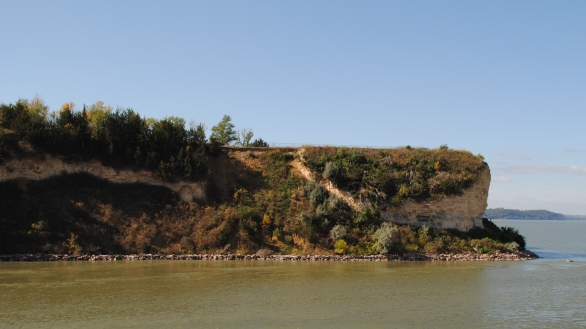 The highest portion of Calumet Bluff as seen from the Gavins Point Dam.